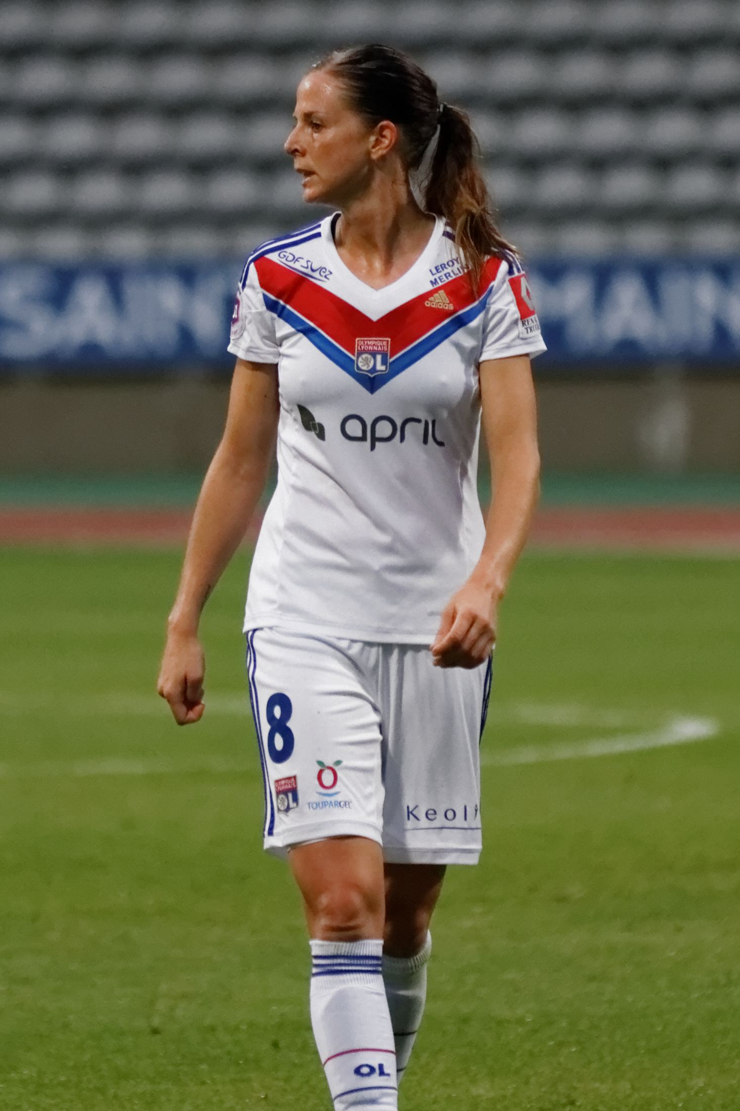 PSG-Lyon, September 29th, 2013.